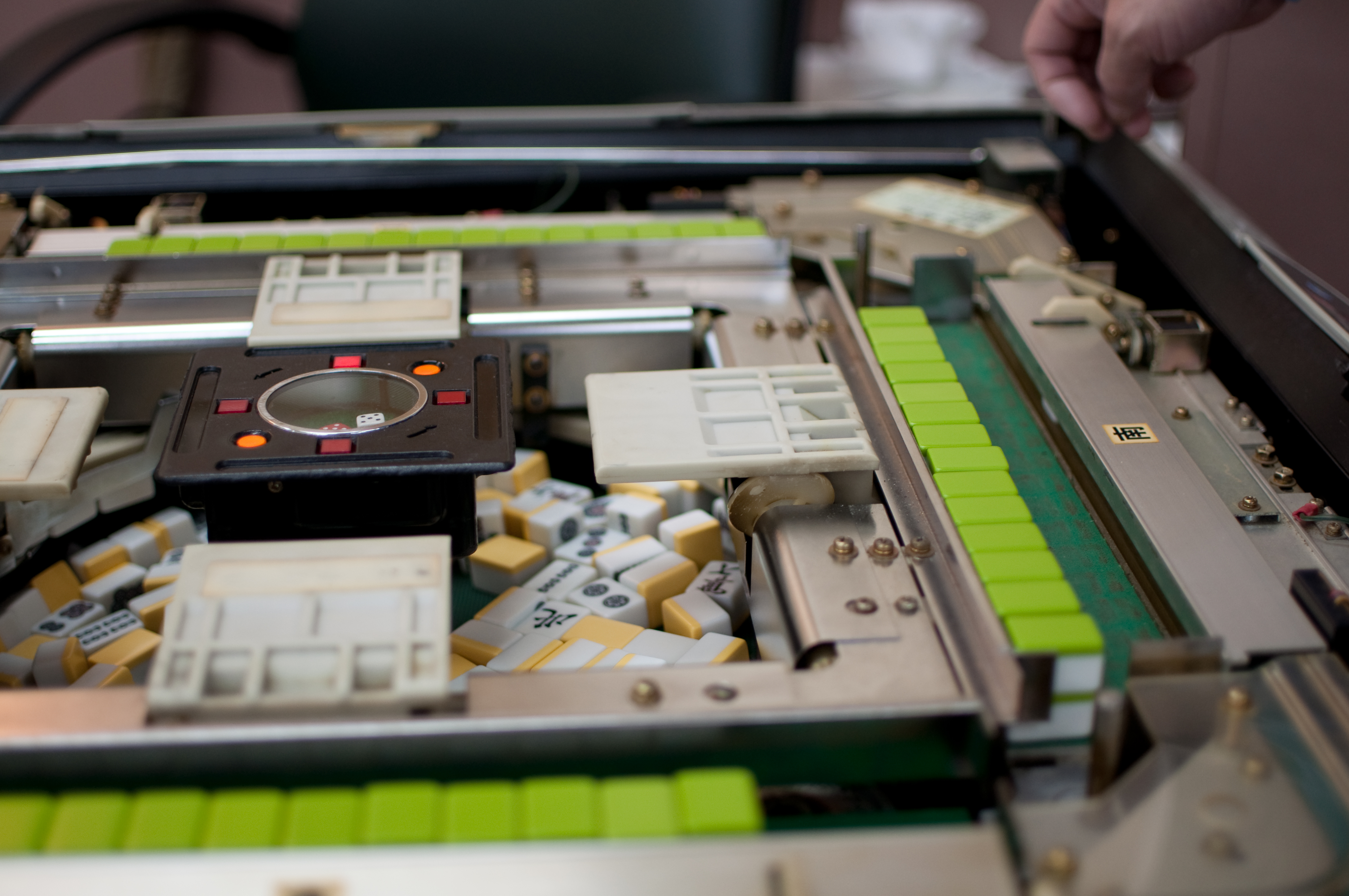 Open the mah-jong table